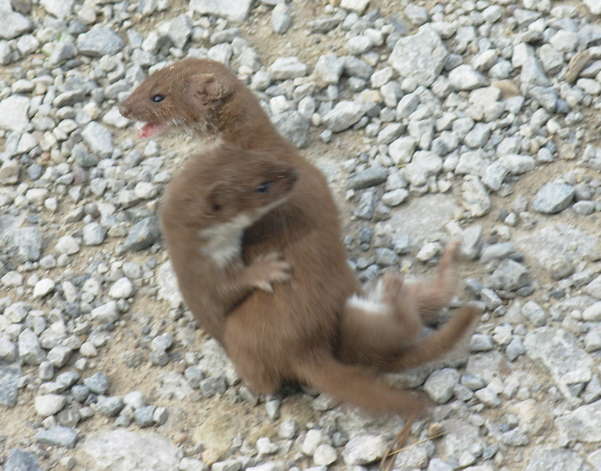 Came across these two fighting on the path, completely oblivious to us. Derwent Reservoir, Peak District, Derbyshire.Weasel Fight